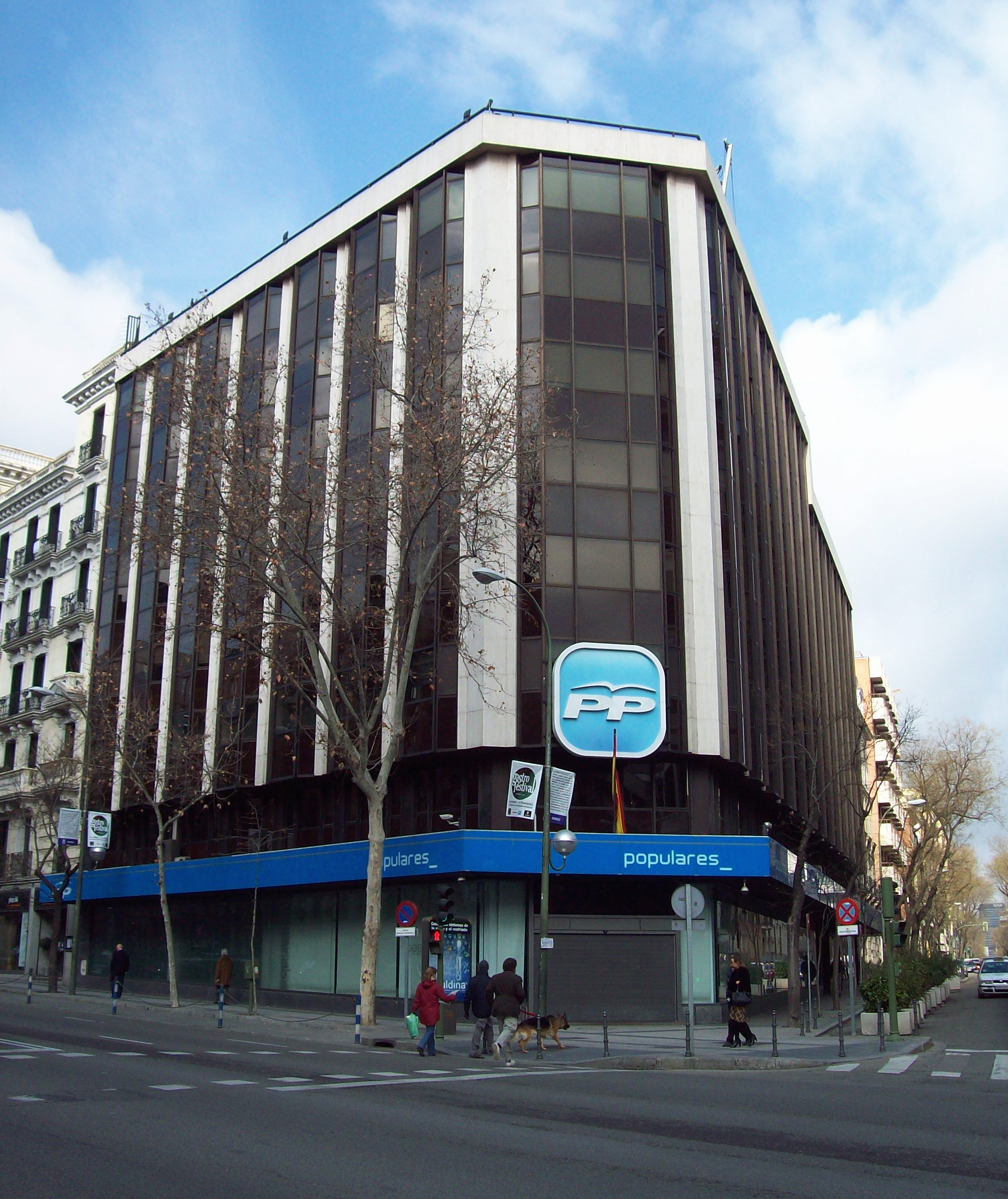 The headquarters of the Spanish People's Party, at 13 Calle de Génova (street) in Madrid.